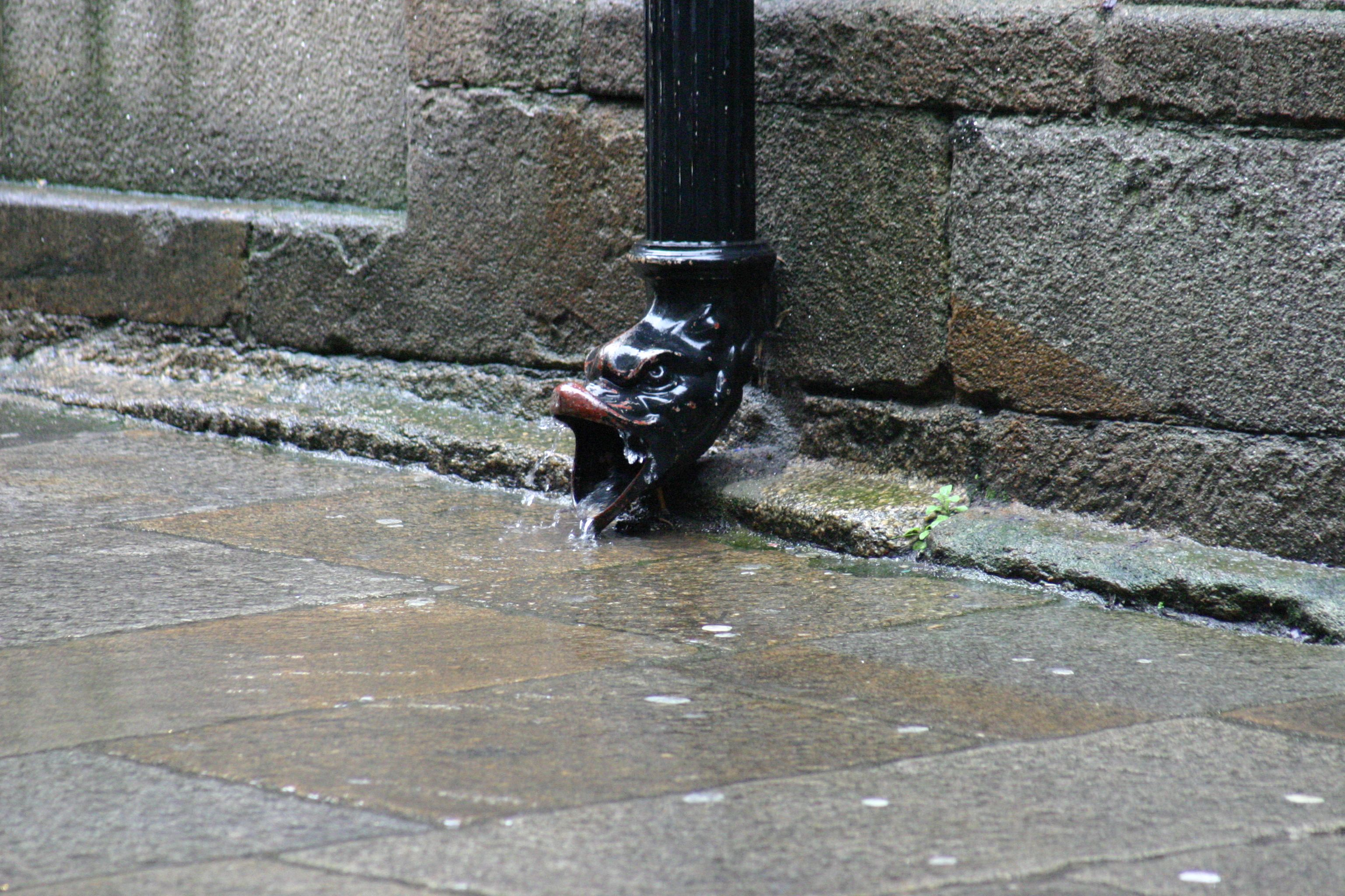 Gutter